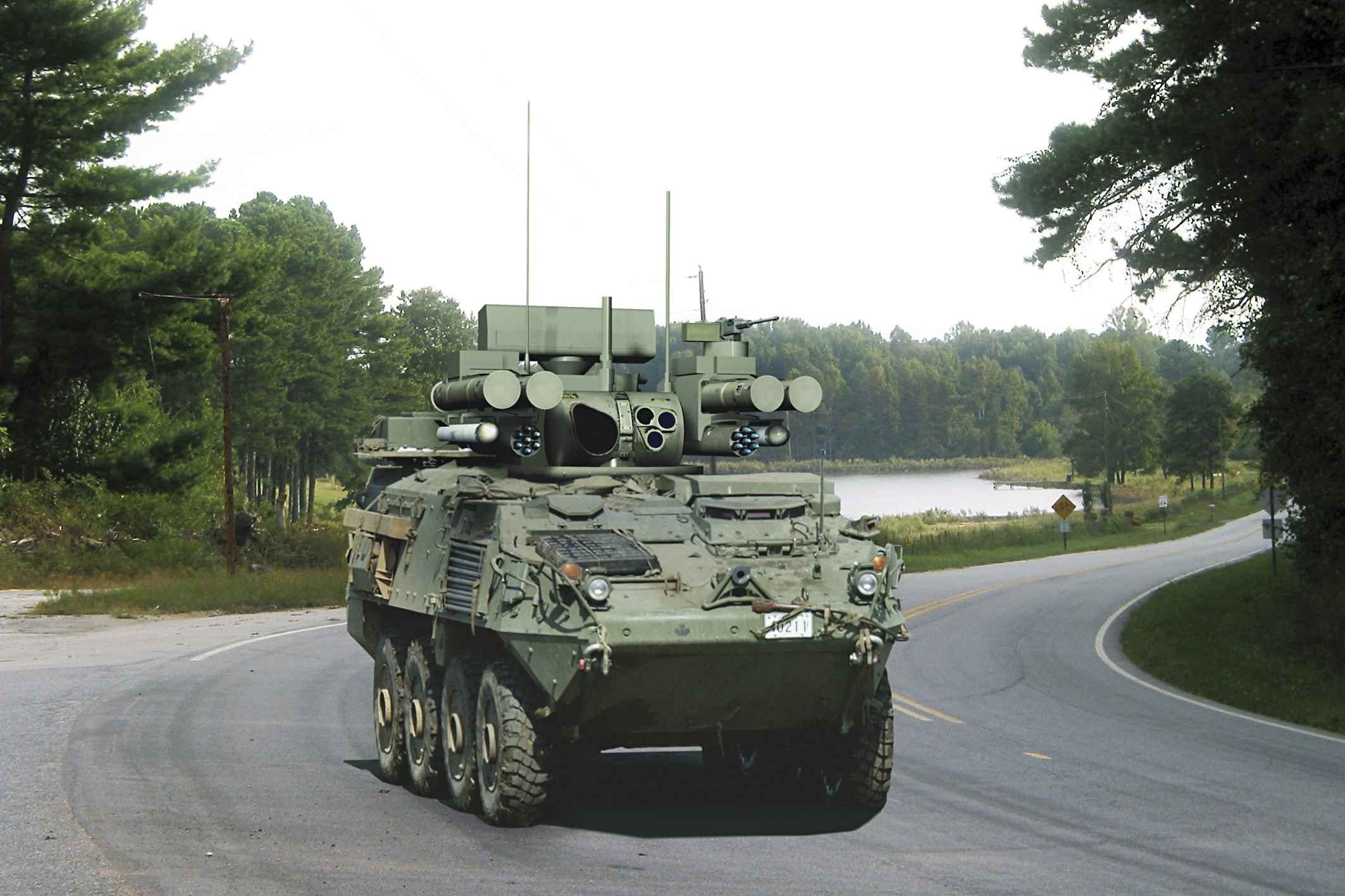 Canadian Army Project Multi-Mission Effects Vehicle tested from 2005 to 2006. It is armed with four ADATS missiles, two IRIS-T surface-to-air missiles and two CRV7 rocket pods.